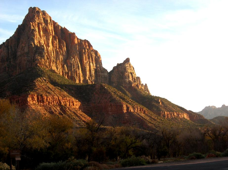 Dusk at Mt. Zion National Park, Nov. 2008